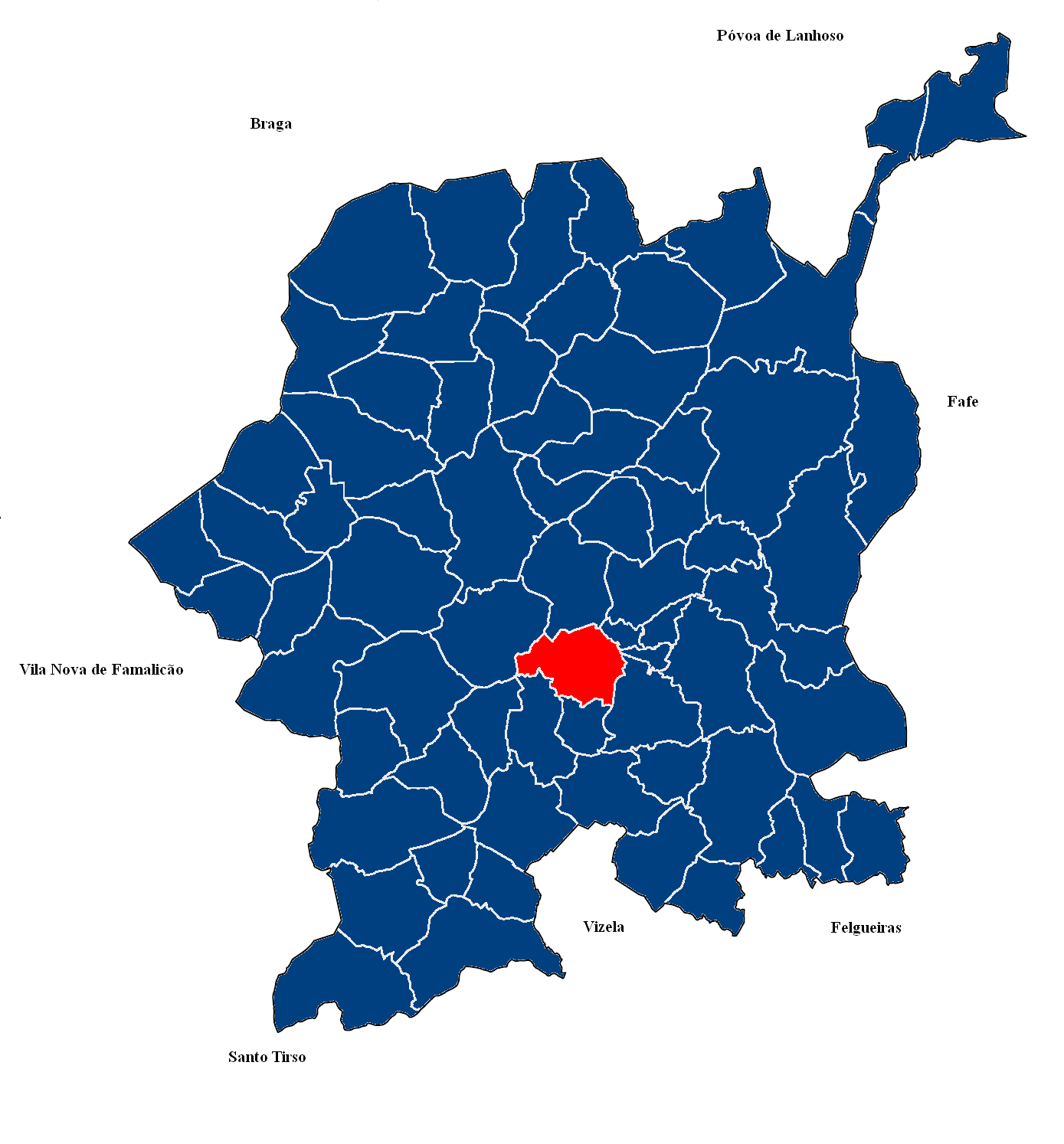 Map of Creixomil parish, Guimarães Municipality, Portugal